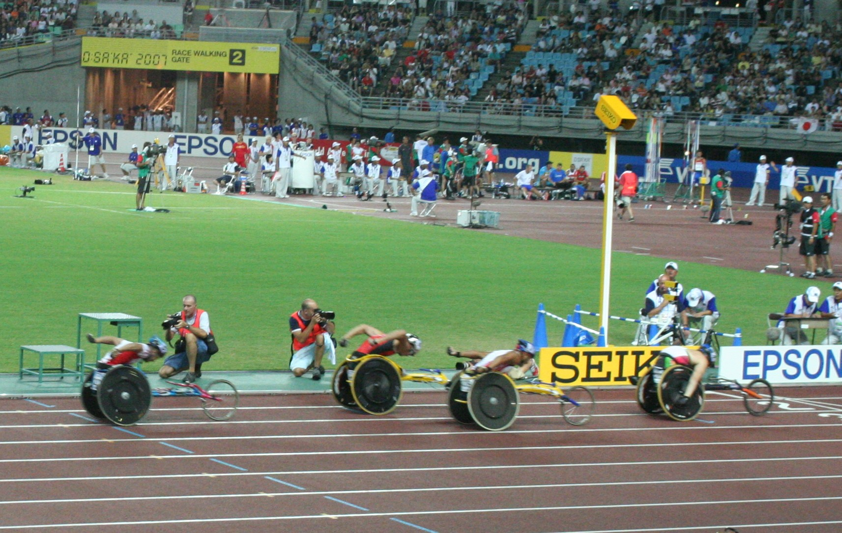 World Athletics Championships 2007 in Osaka - Men*s 1500m wheelchair race